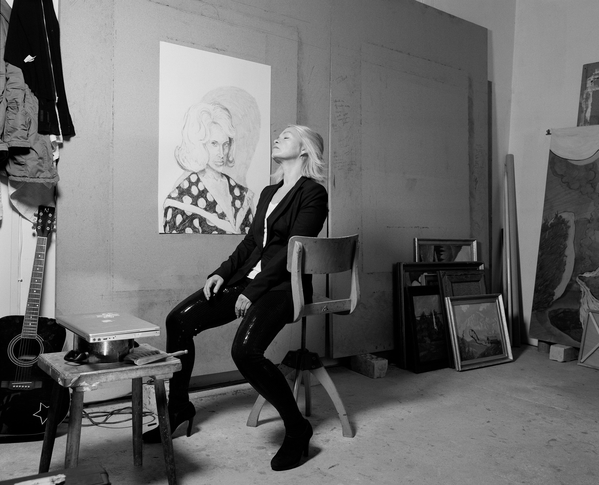 Laura Bruce, photographed by Oliver Mark, Berlin 2012